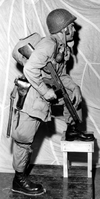 Sgt Major Runyon models for Fort Bragg (North Carolina)'s "Iron Mike" statue.